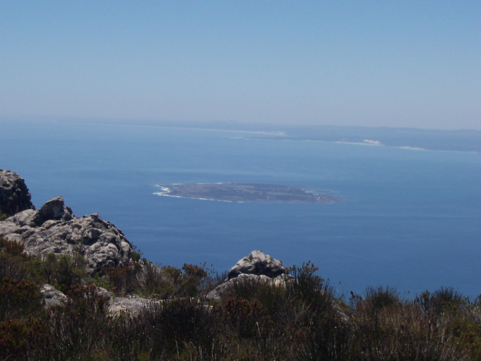 Robben island as viewed from Table Moutain / South Africa, Cape Town.